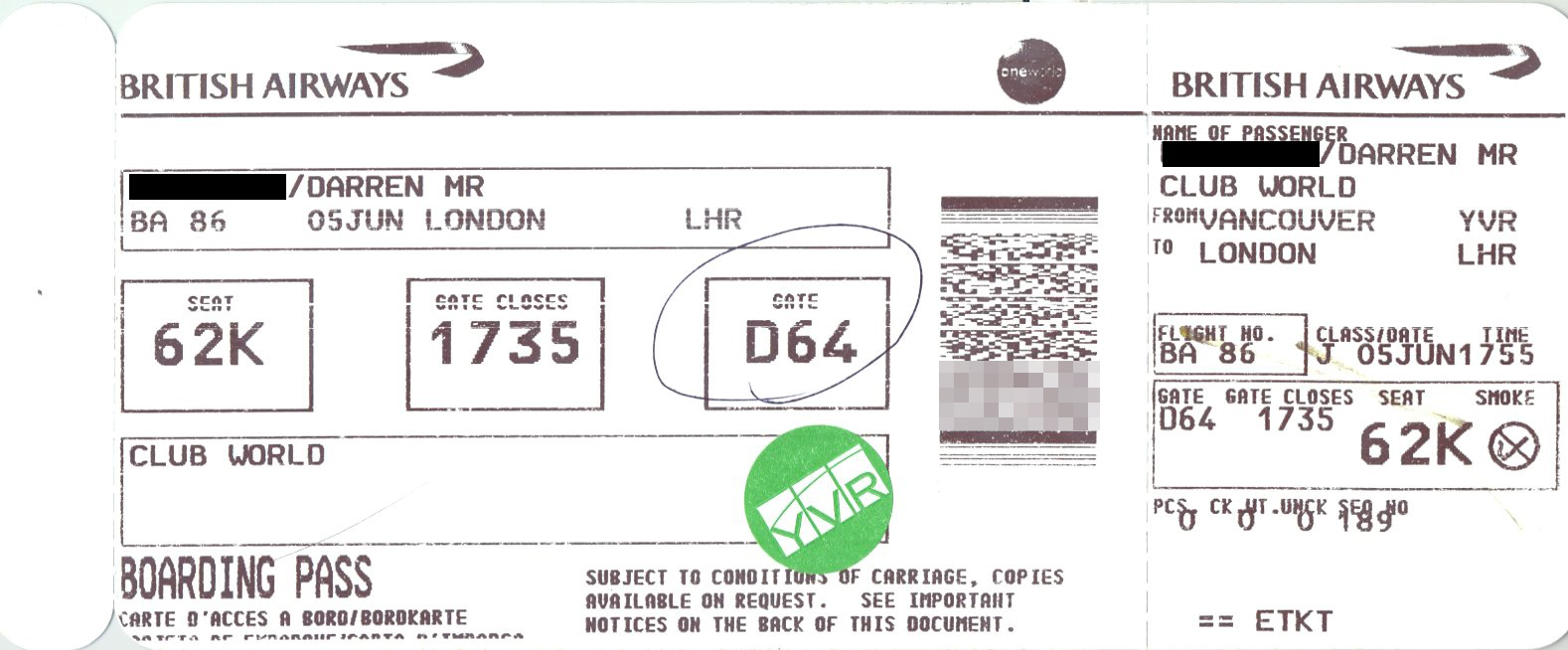 A boarding pass from British Airways, for a flight from Vancouver to London Heathrow. The green sticker allows use of "fast pass" security clearance and the brown pencil mark on the stub shows that the passenger has cleared security. The large portion is meant to be retained by the airline but in this case it wasn't.